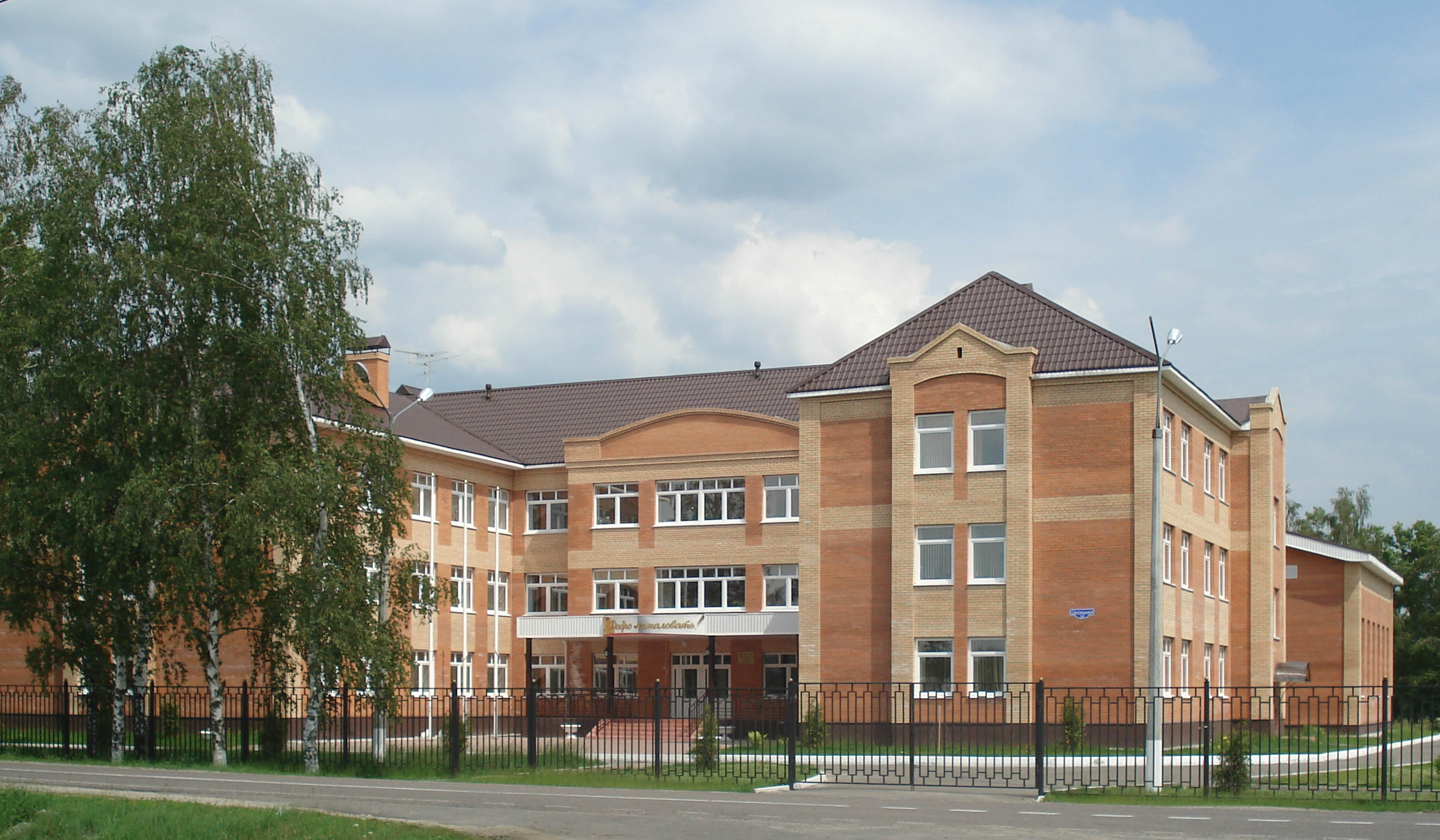 New bilding of sсhool in the village of Antsiferovo_Moscow_Oblast